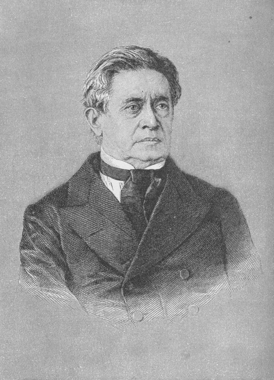 Engraving showingJoseph Henry.